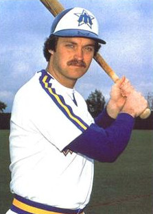 Professional baseball player Jerry Narron